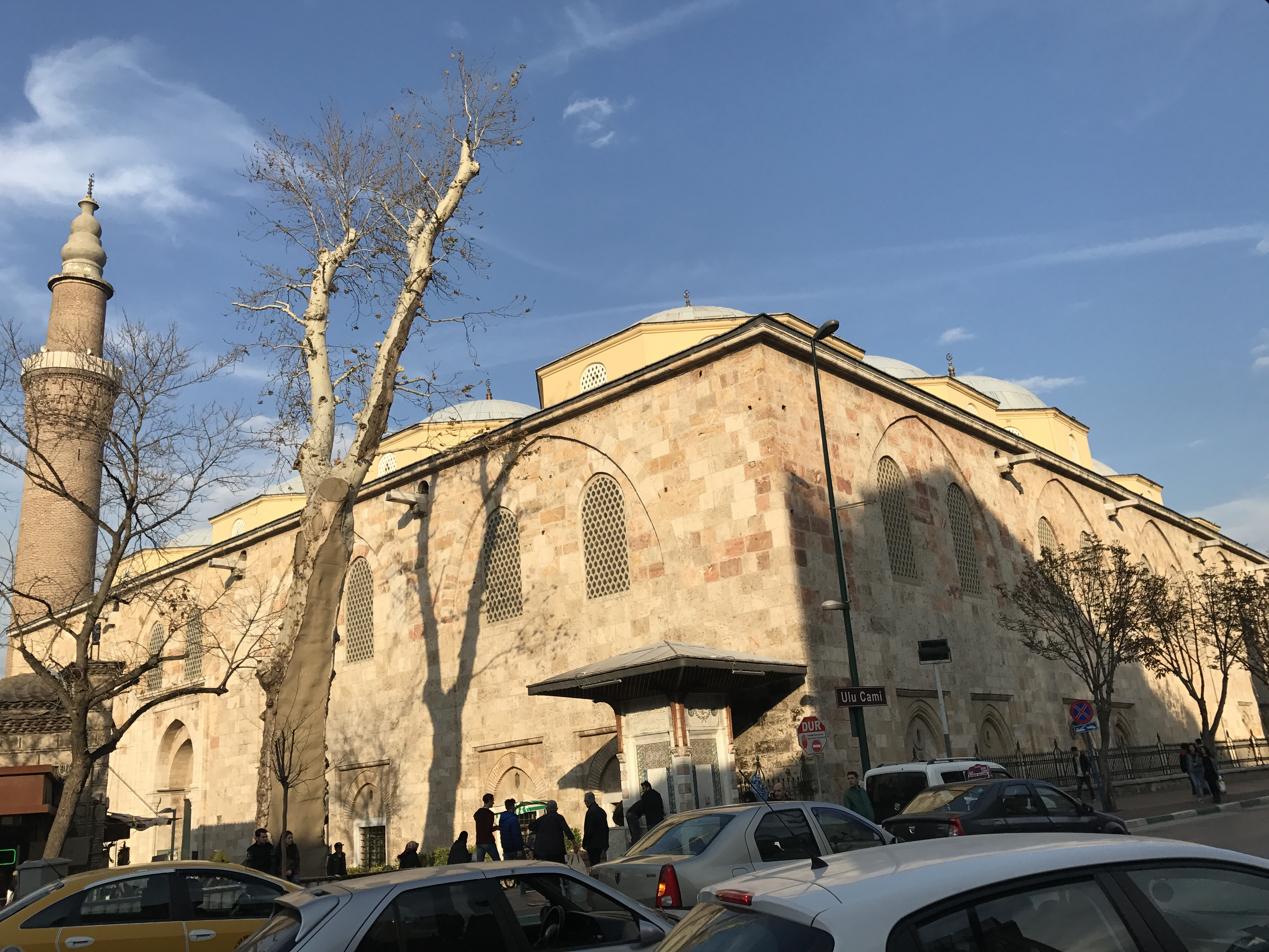 Facades of "Ulu Cami" (Grand Mosque of Bursa), Bursa, Turkey.